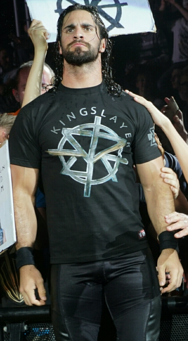 Roman Reigns & Seth Rollins defeat Bray Wyatt & Samoa Joe ( Le vendredi 12 mai, la WWE Live Tour fera escale au Country Hall a Liege pour le spectacle de catch de l'annee! Au programme: des duels impitoyables et des rencontres captivantes entre les meilleures equipes et les plus grands rivaux. )